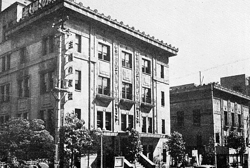 SHUFUNOTOMO Co.,Ltd Head Office circa 1960